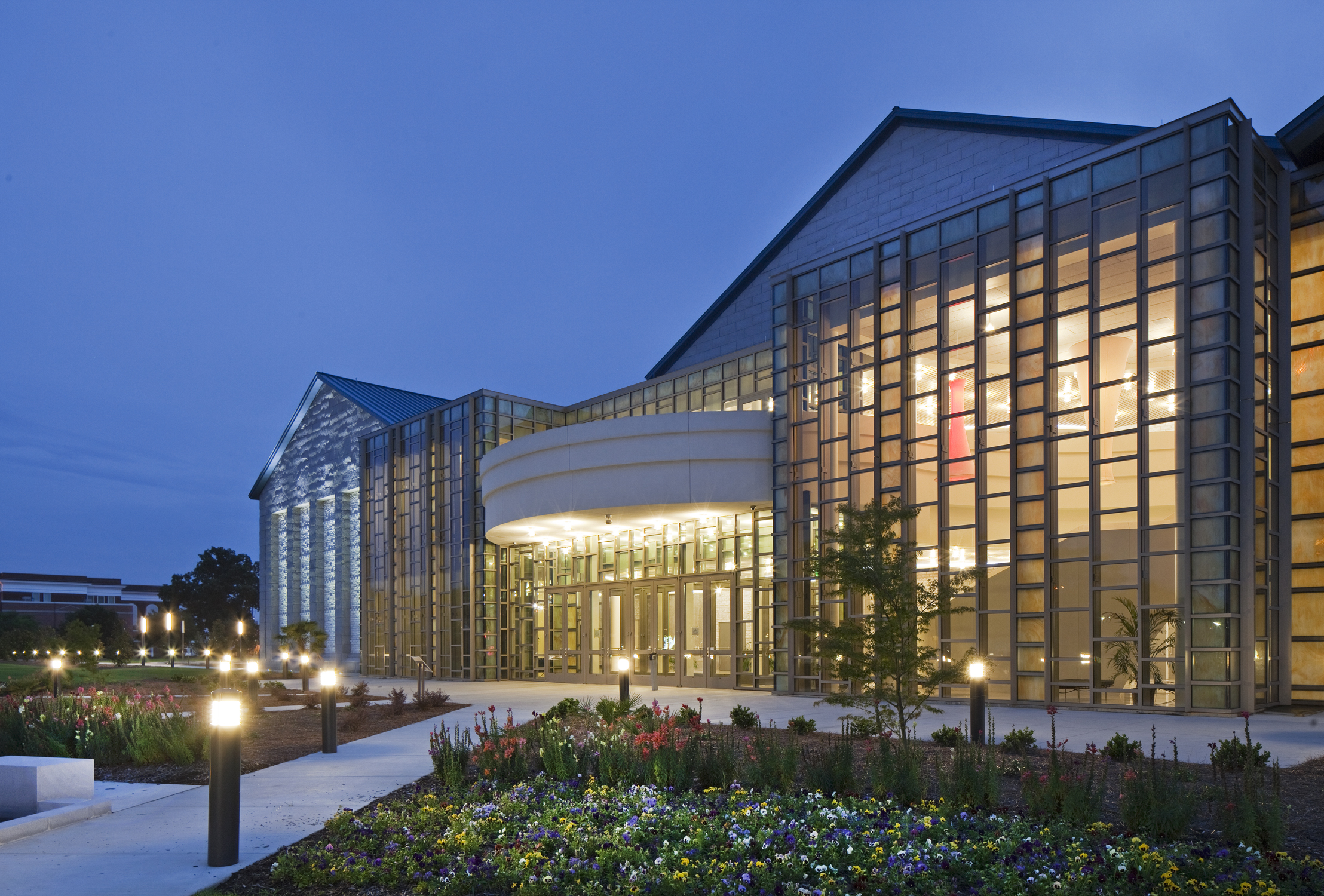 The Performing Arts Center in Downtown Florence